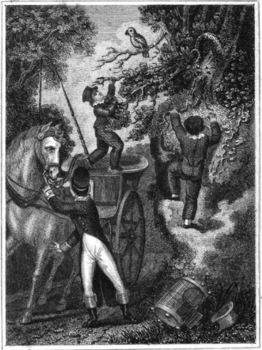 Front cover of Confidential Memoirs: or Adventures of a Parrot, a Greyhound, a Cat and a Monkey, a book by Mary Elliot published in 1821